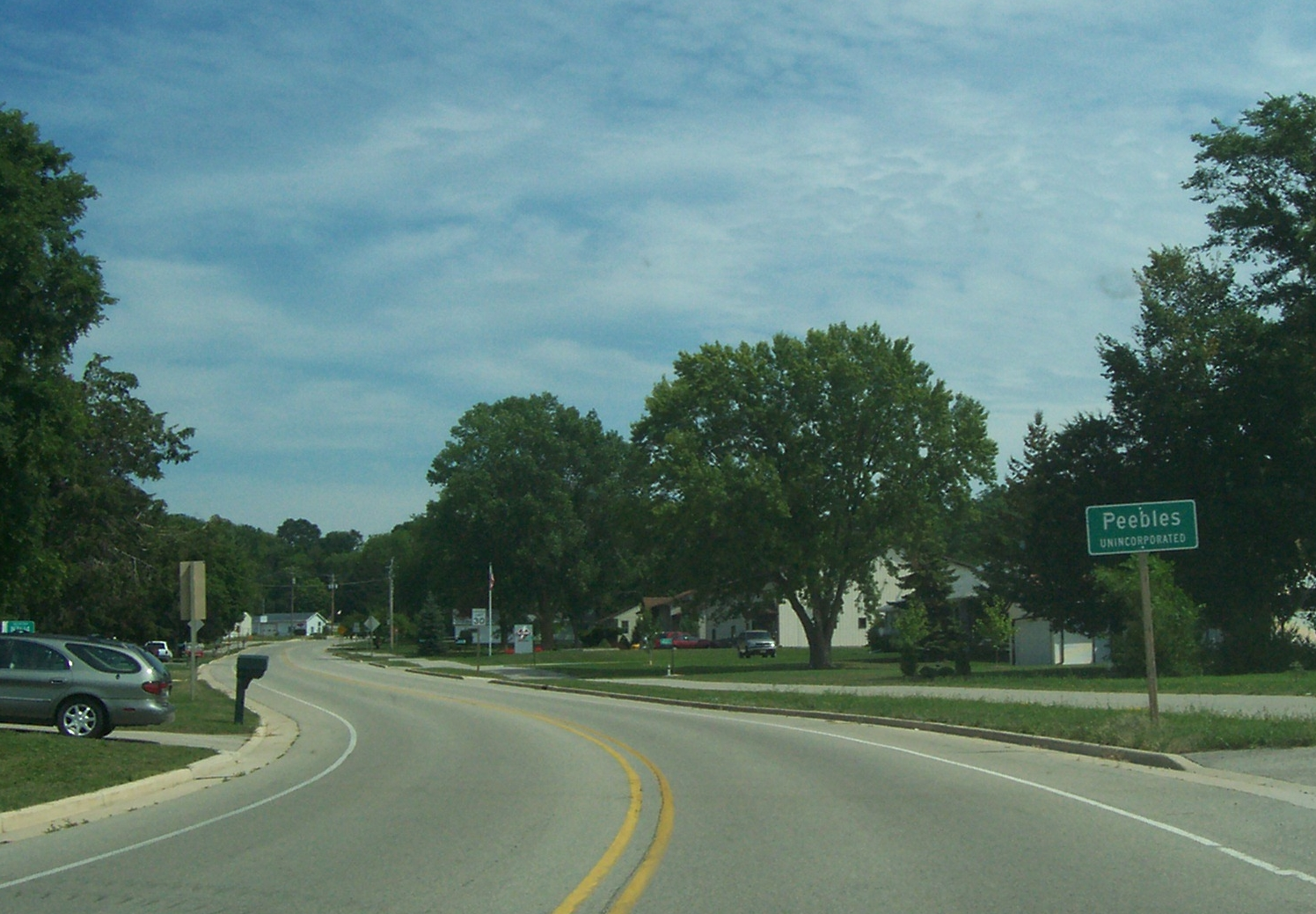 Looking east at the sign for Peebles, Wisconsin on County Highway WH. The road was called Wisconsin Highway 149 until the state highway was decommissioned.